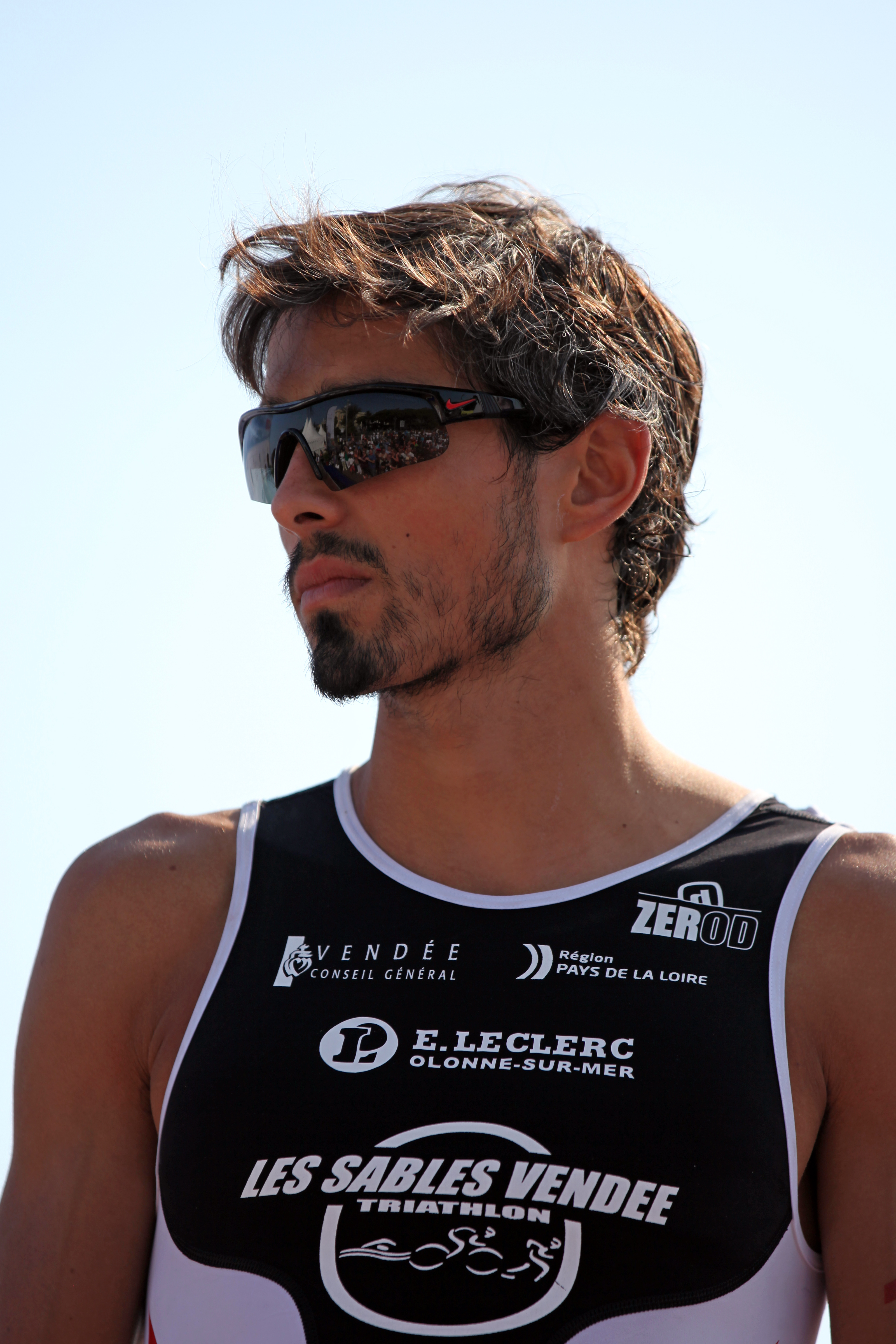 João Pedro Silva at the Grand Final of the French Club Championship Series Lyonnaise des Eaux in Nice (Nizza), 2012